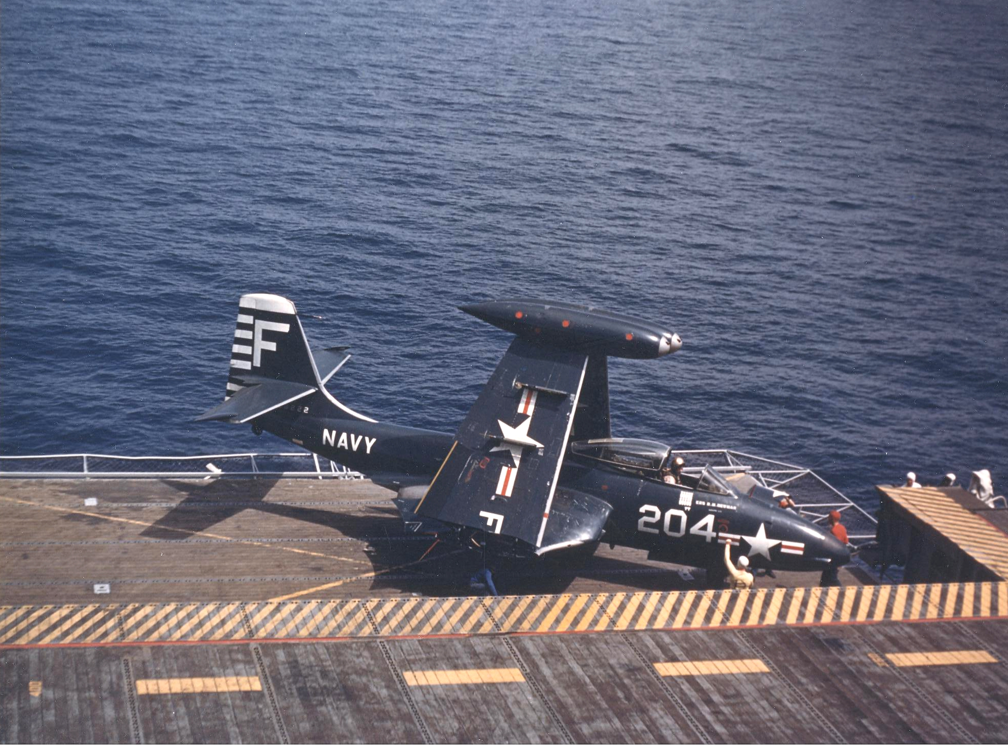 A U.S. Navy McDonnell F2H-2 Banshee (BuNo 123222) of Fighter Squadron VF-62 "Gladiators" aboard the deck edge elevator of the aircraft carrier USS Lake Champlain (CVA-39) off Korea. VF-62 was assigned to Carrier Air Group 4 (CVG-4) aboard the Lake Champlain for a deployment to the Mediterranean Sea, the Indian Ocean, and Korea from 26 April to 4 December 1953.